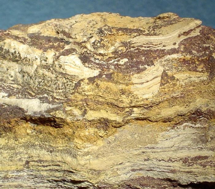 Corderoite, Cinnabar Locality: McDermitt Mine (Cordero Mine; Old Cordero Mine), Opalite District, Humboldt County, Nevada, USA (Locality at ) Size: 6.2 x 4.4 x 4.0 cm. Corderoite is a very rare mercury chloride sulfide and this excellent layered specimen is from the Type Locality - the McDermitt (Cordero) Mine of Nevada. This is very rich mercury ore. Dark red bands of microcrystalline to massive cinnabar alternate with layers of tan limonite. The corderoite is the rich dusting of the yellow-tan microcrystals found on all sides of the specimen and on both the cinnabar and limonite. Corderoite was not named until 1974, but primary mercury production of this small mine was over before 1941. This material probably dates to that time. From an old European collection.